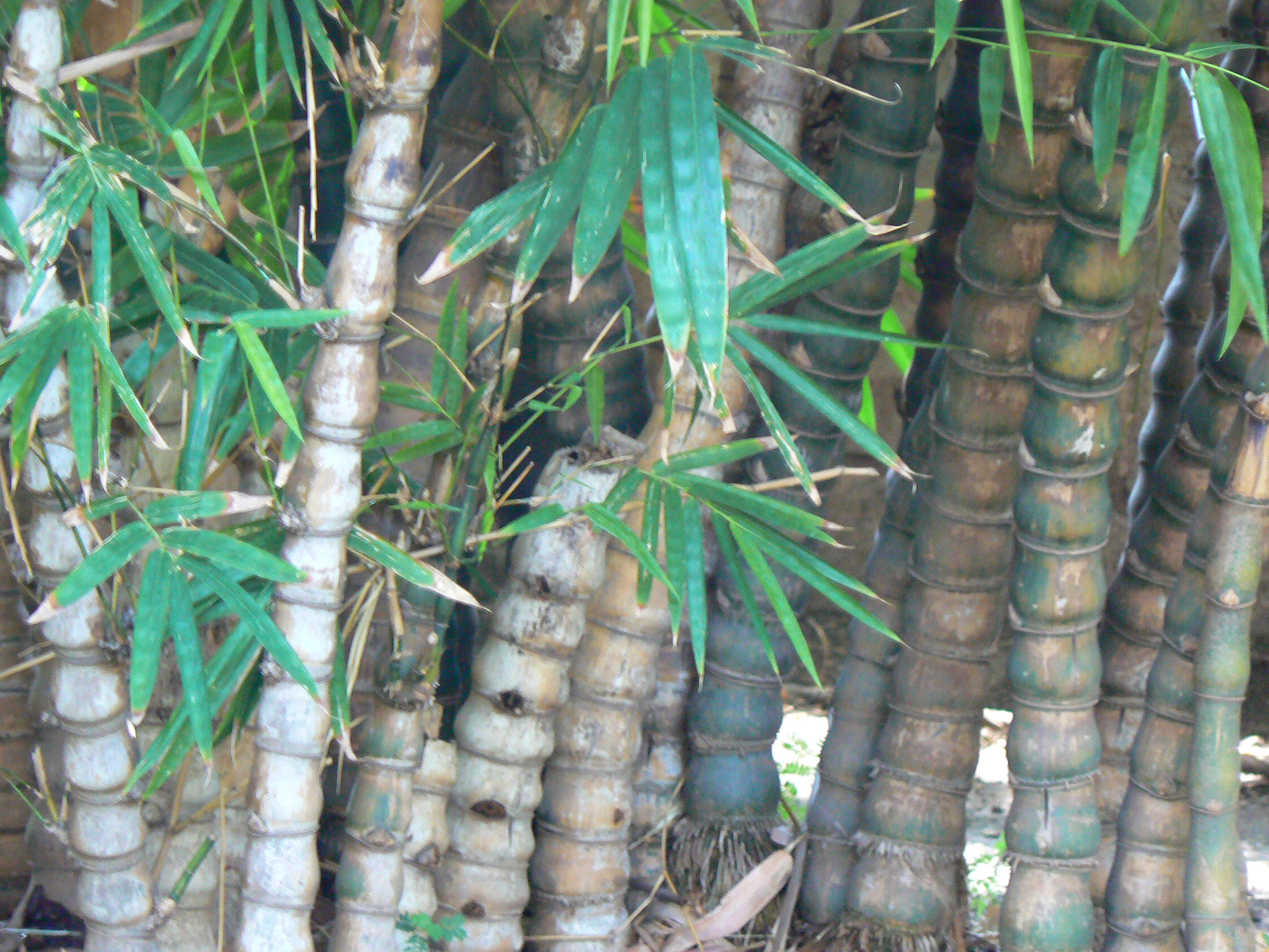 Poaceae (formerly and, also known as Gramineae; grass family) » Bambusa ventricosa bam-BOO-suh -- a name for bamboo; an erroneous pronunciation of the Indian word bambu ven-tre-KO-suh -- unevenly swollen commonly known as: Buddha's-belly bamboo, Buddha bamboo, swollen-stemmed bamboo Native of: China References: Flowers of India • Complete Bamboo • NPGS / GRIN